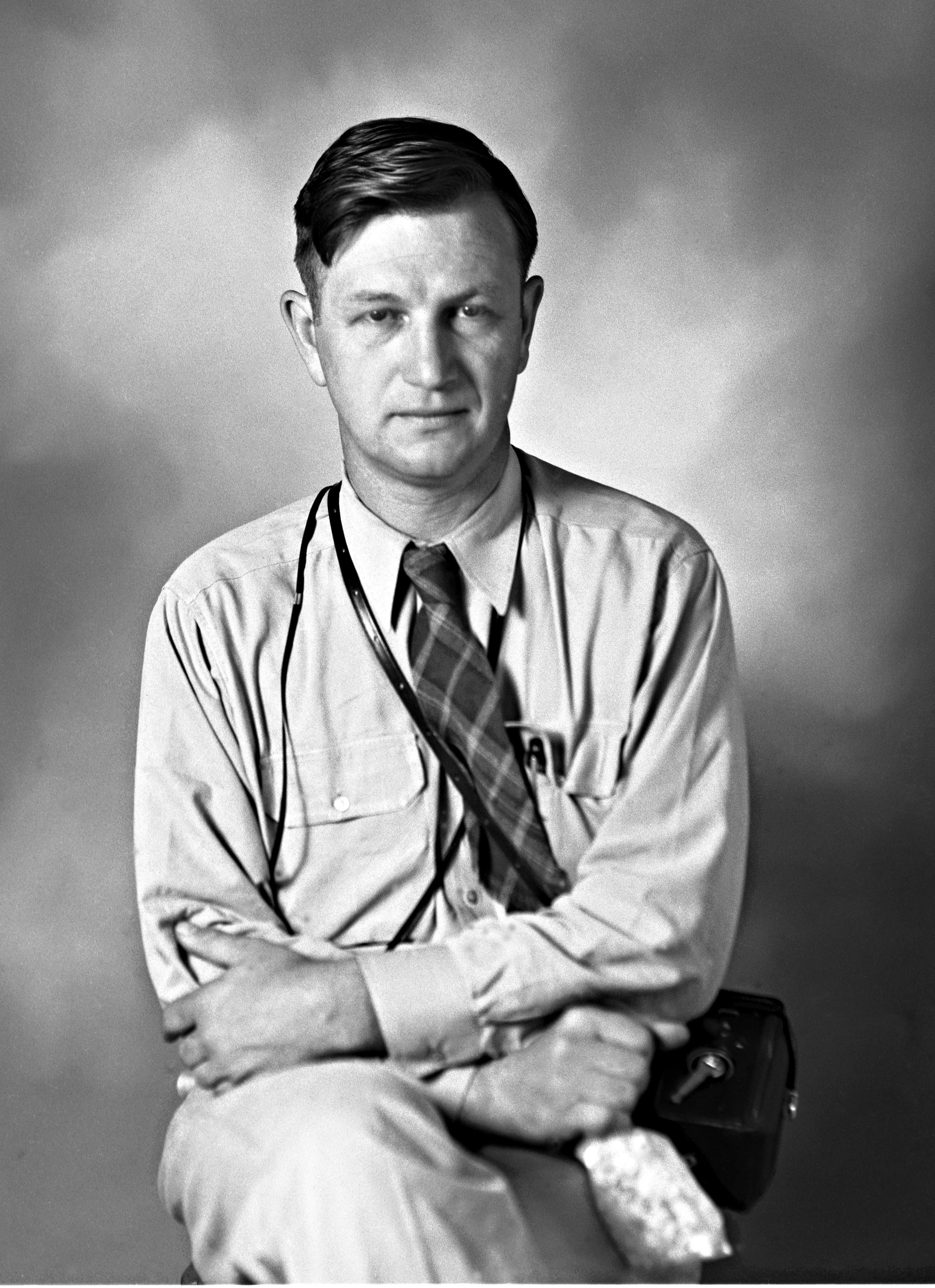 American photographer Russell Lee (1903–86)